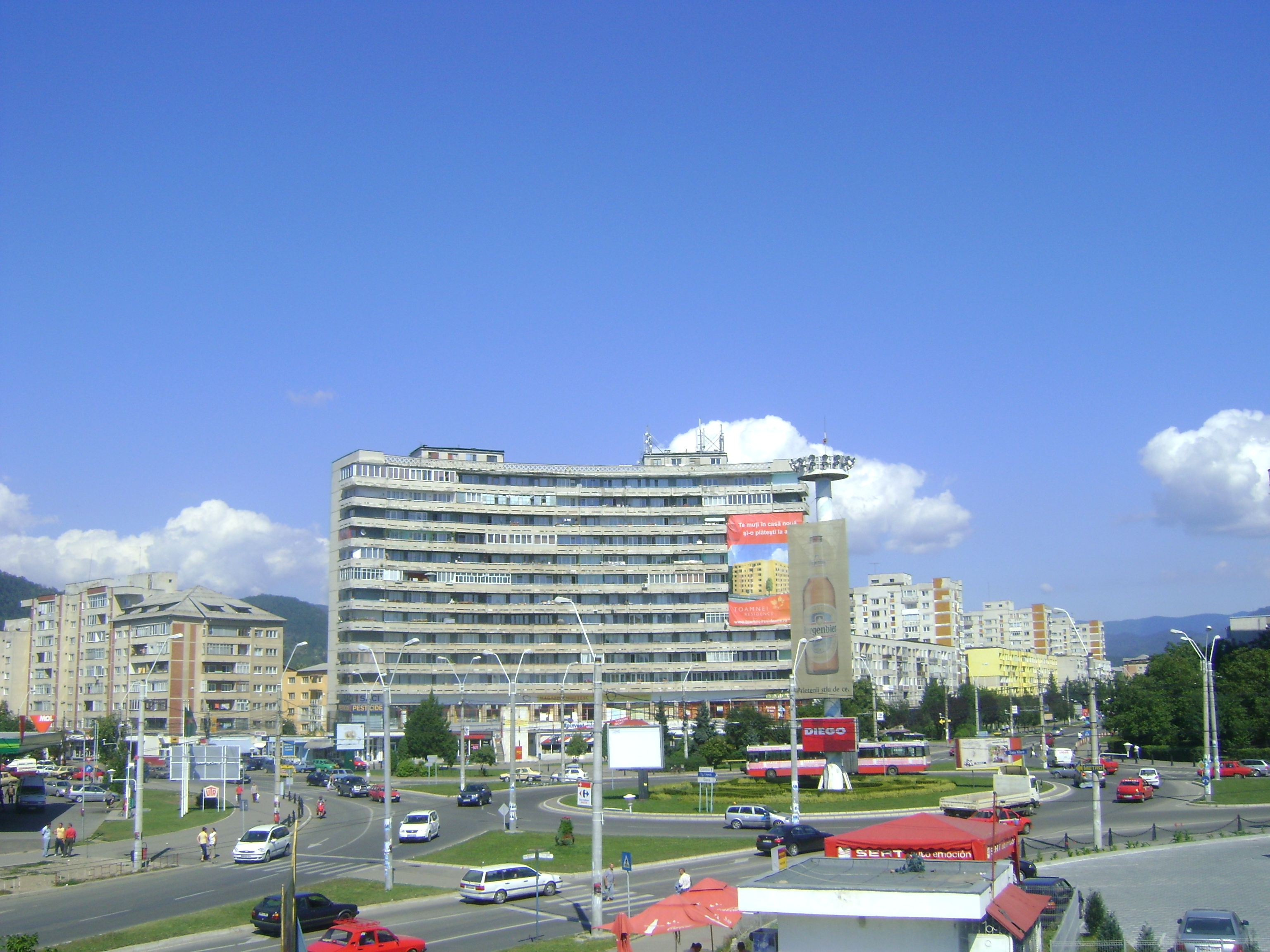 Enter in the Baia Mare city